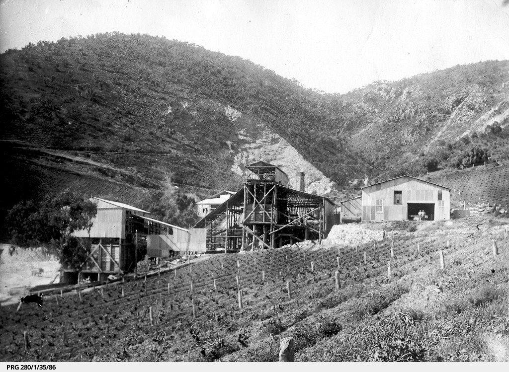 Buildings at Stonyfell quarry, east of Adelaide, c.1923